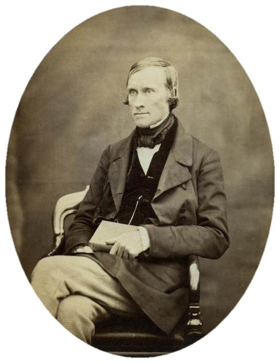 James David Forbes